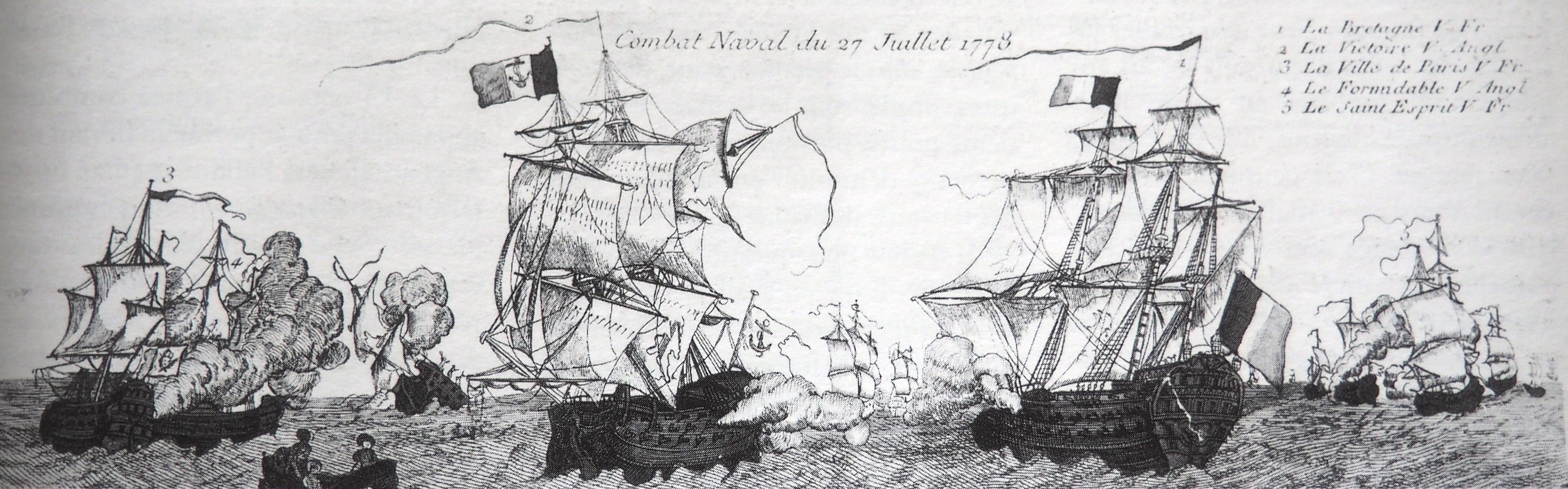 early 18th century engraving of Bretagne